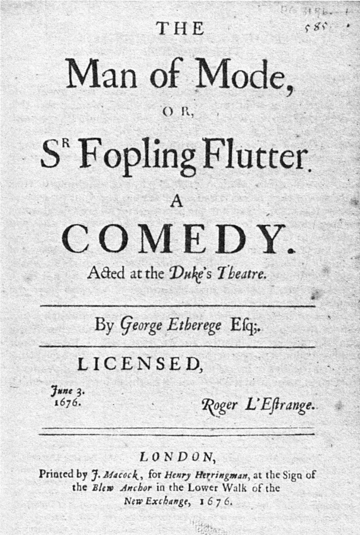 Title page [not frontispiece!] of George Etherege’s Restoration comedy, The Man of Mode or Sir Fopling Flutter, 1676